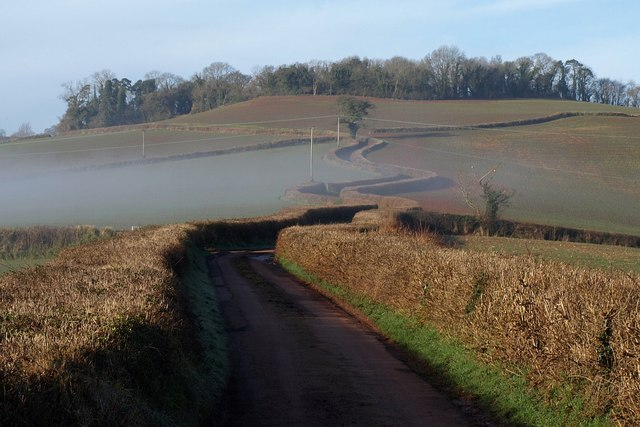 Lane to Posbury Morning mist drifts across this lane as it follows a ridge between the valleys of the Culvery (left) and the Yeo. The sinuous stretch ahead is in SX8197, together with Posbury Clump on the hilltop.